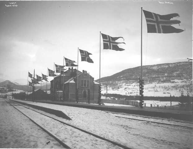 Opening of Bergensbanen at Voss, Norway.